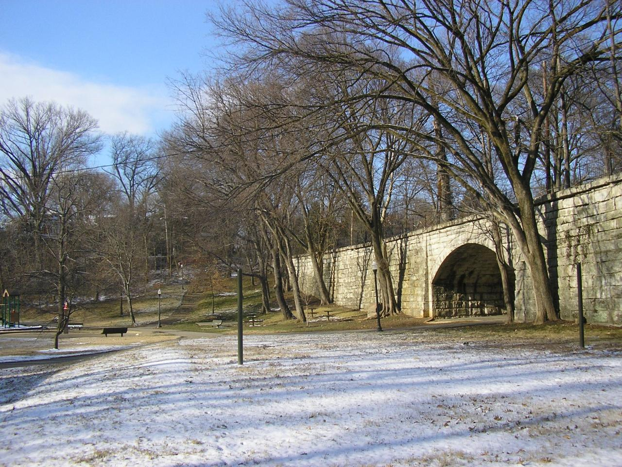 Photo taken by uploader on 2/18/06